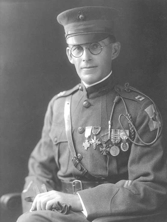 Orlando Petty in his dress uniform. He received the Medal of Honor for saving a wounded Marine after an enemy explosive and gas shell attack on his field dressing station at Lucy, France, on June 11, 1918. The U.S. Navy Medal of Honor ("Tiffany Cross" pattern) is on the far left. Immediately to its left he wears the Distinguished Service Cross (U.S. Army), the Croix de guerre with bronze palm (French Republic), the WWI Victory Medal with three battle clasps and finally the Membership Badge for the General Society of the Sons of the American Revolution. The latter badge's wear on an active duty officer's uniform would be in contravention of military uniform regulations. The photograph was therefore likely taken once Petty had left active service.